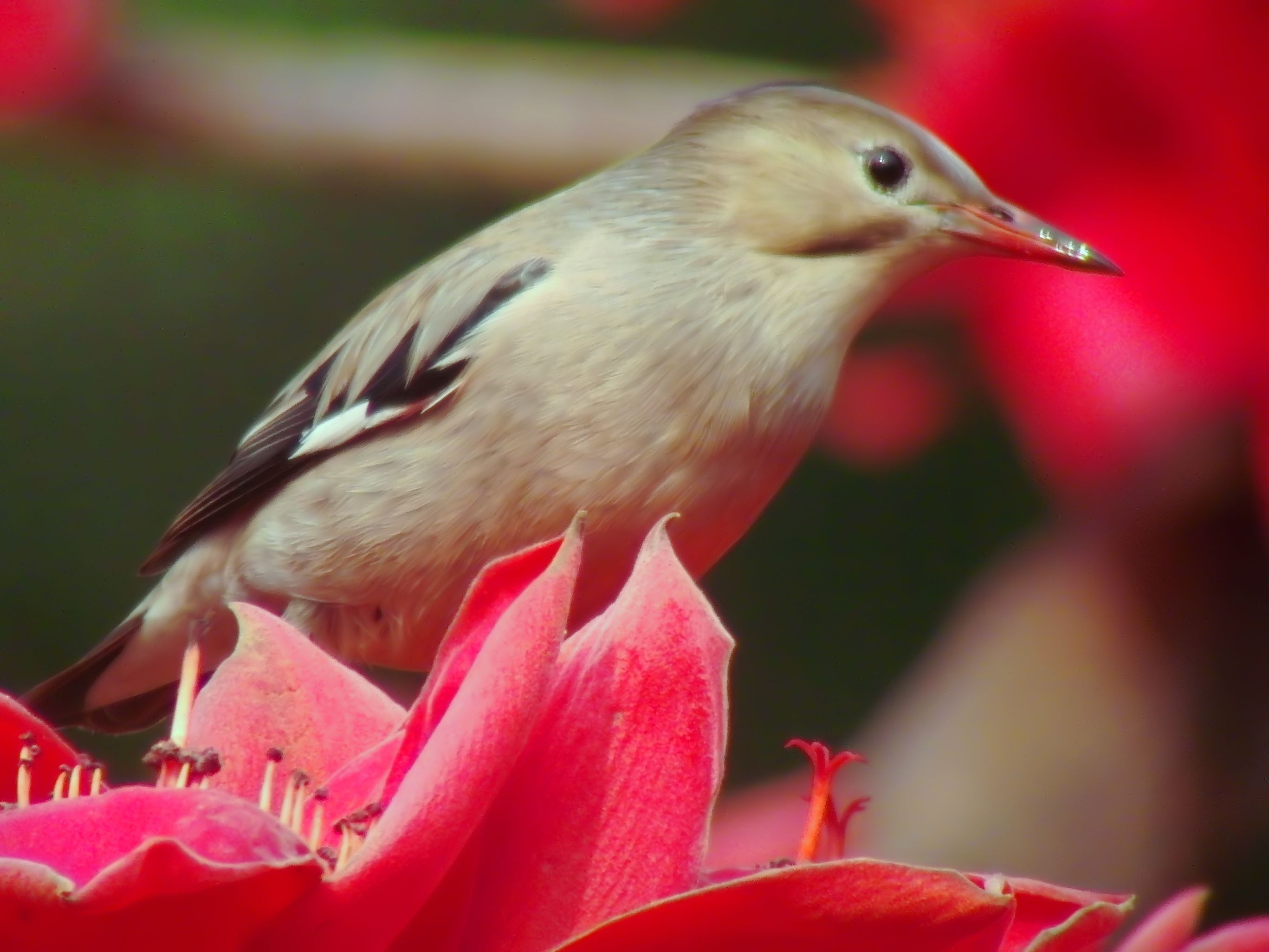 Saw at roadside . Got a video as well.